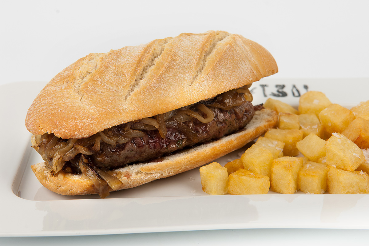 Pepito de ternera Punk Bach